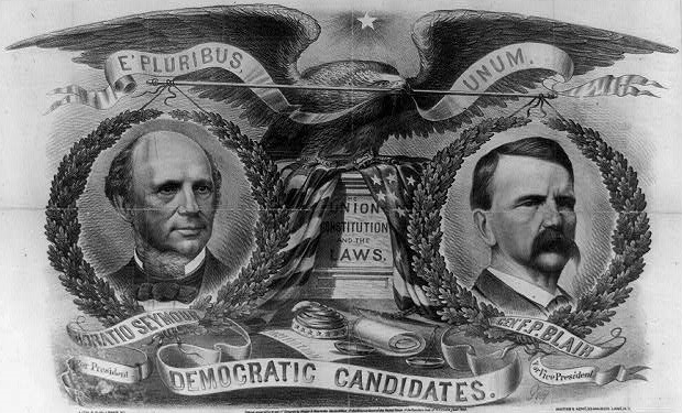 1868 Democratic campaign banner for Seymour and Blair.